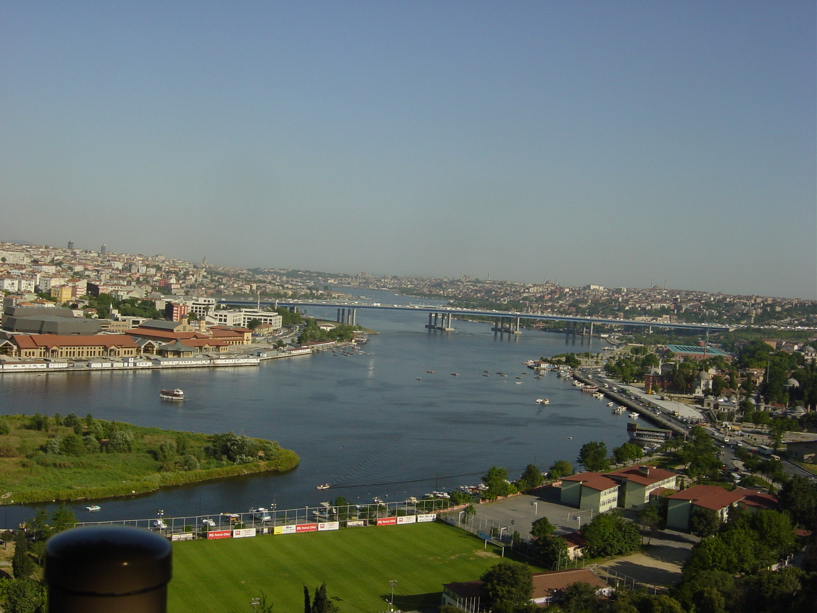 Istanbul - Sight of the Golden Horn from "Café Loti" in Eyüp. Picture by: Giovanni Dall'Orto, May 30 2006.